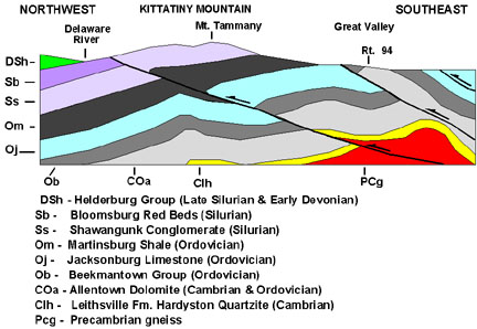 Generalized geologic cross-section of Kittatinny Mountain in the Delaware Water Gap National Recreation Area.